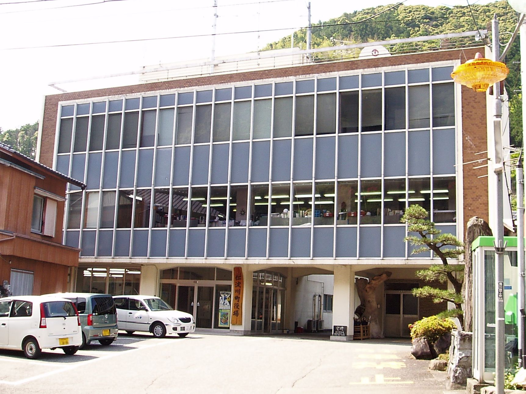 Niyodogawa Town Office